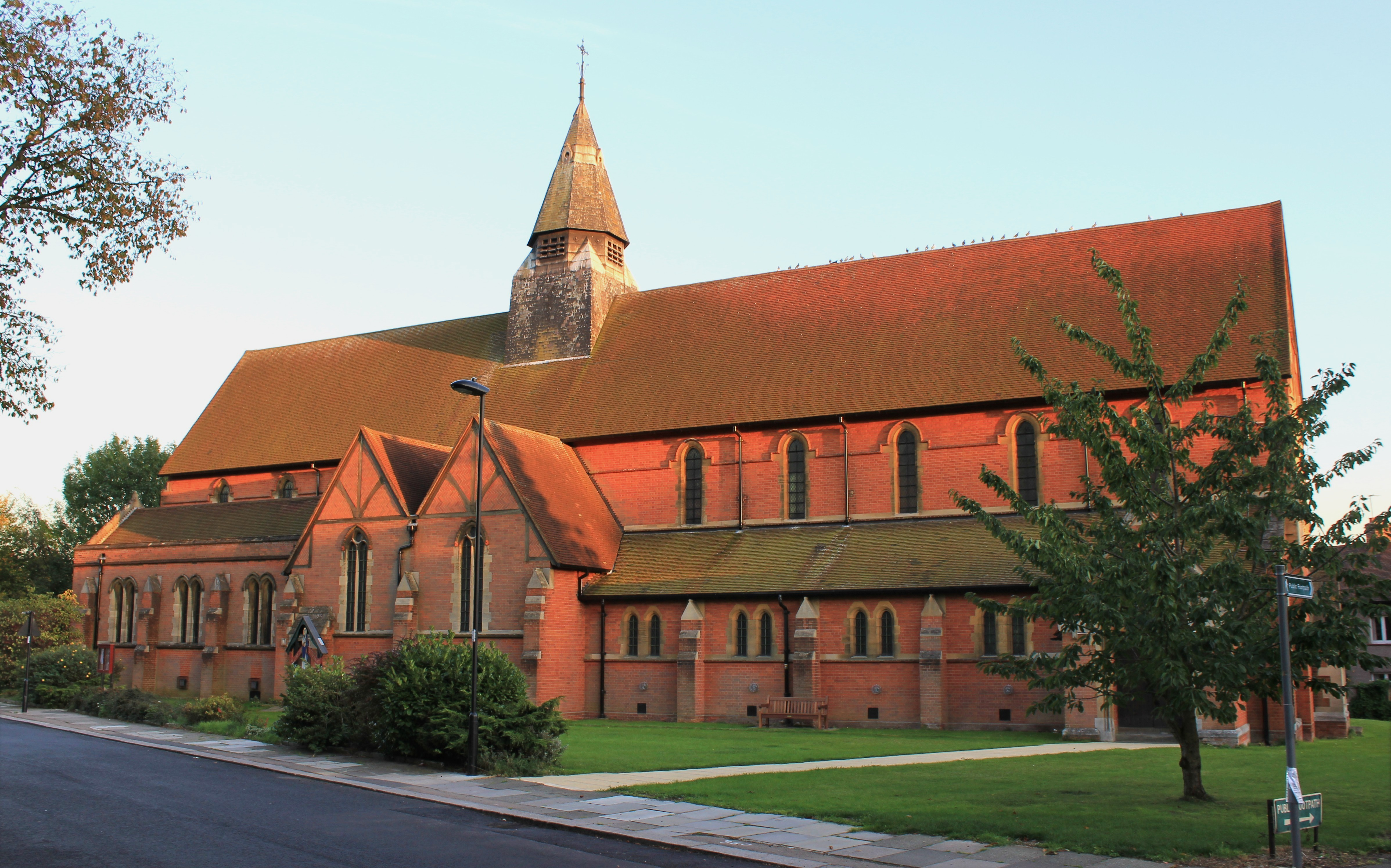 St Luke's parish church, Phipps Hatch Lane, Enfield, Middlesex, seen from the northwest